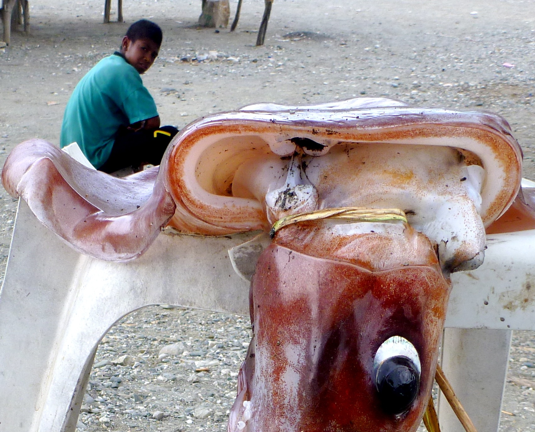 Just before you enter Manatutu you pass a group of thatched open air huts selling grilled fish cheaply. A pleasant place to stop for a seafood snack. We opted not to buy this poor squid.